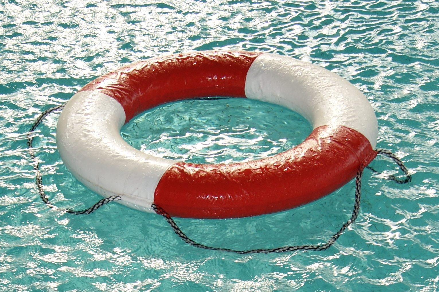 Lifebelt in Water